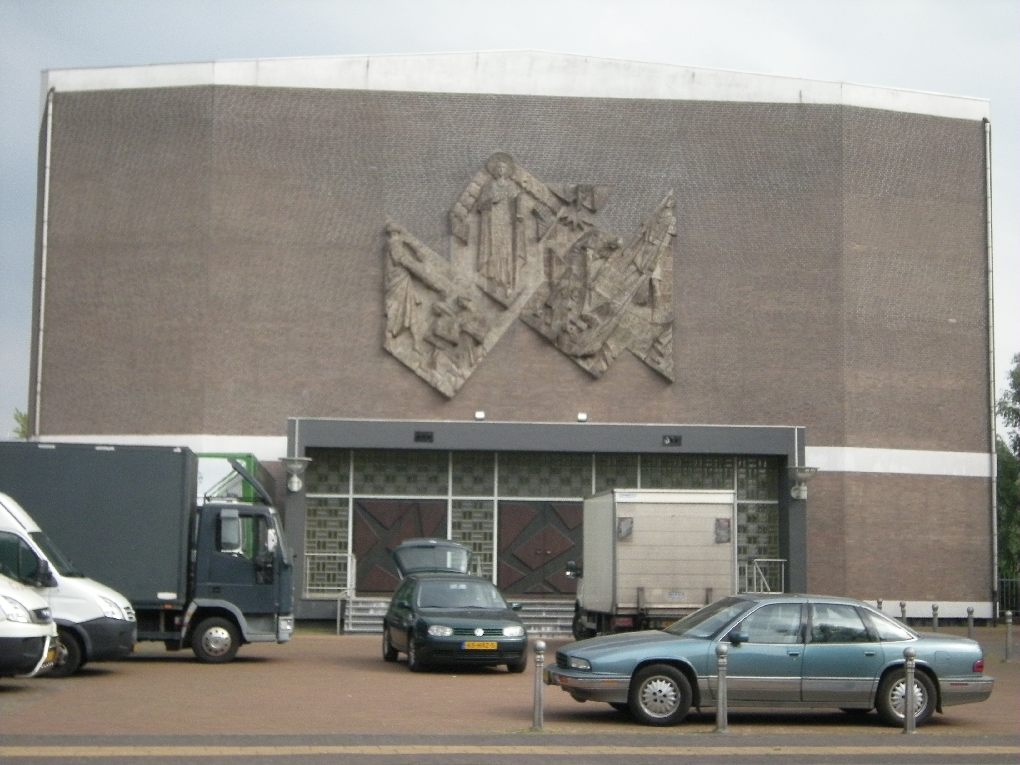 Church of St. Anthony of Padua - front, Blerick